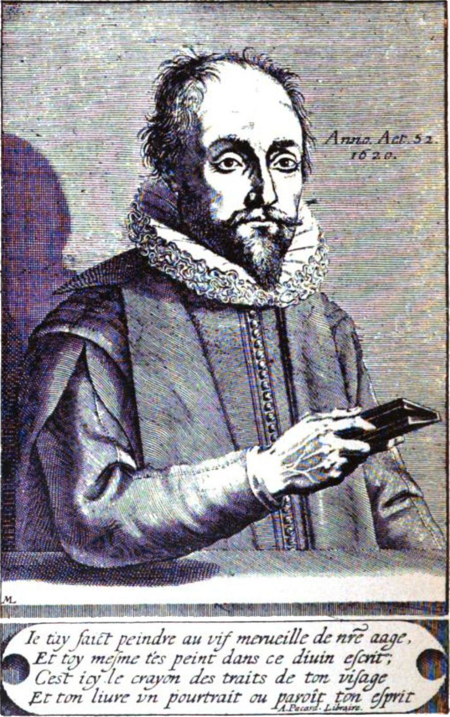 Pierre Du Moulin (1568–1658), French Huguenot minister.